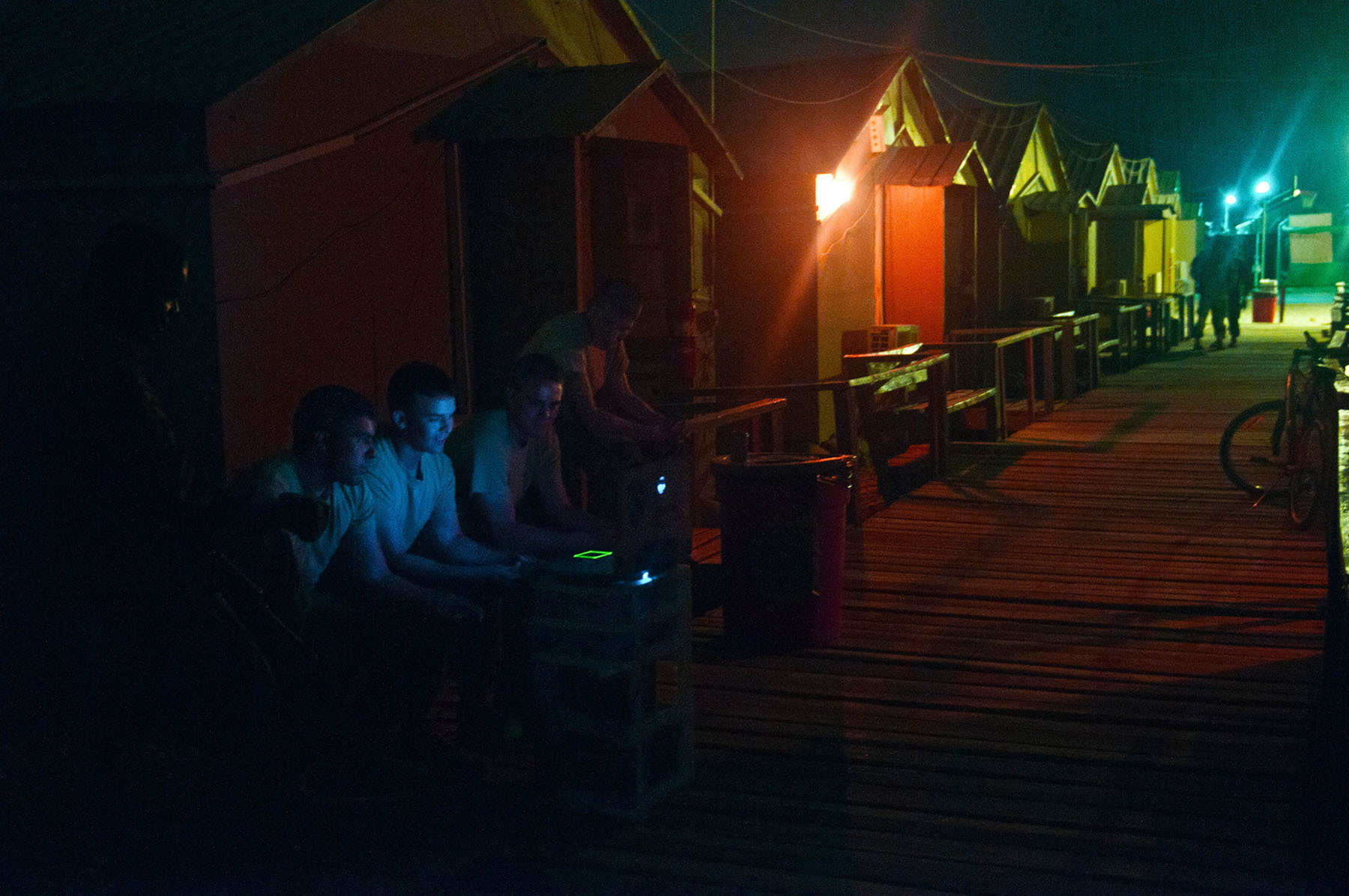 Spcs. Ian Feilen from San Antonio, William Dubbs from Bodcaw, Ark., Christopher Gosa from Boaz, Ala., and Stephen Dooley of Stafford, Conn. relax by playing video games on a laptop they set up outside their B-hut Aug. 25.